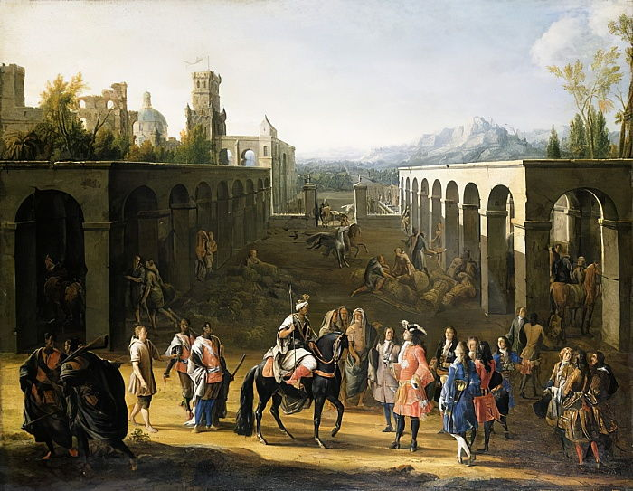 Reception of François Pidou de Saint Olon, Ambassador of Louis XIV of France by Ismail Ibn Sharif.